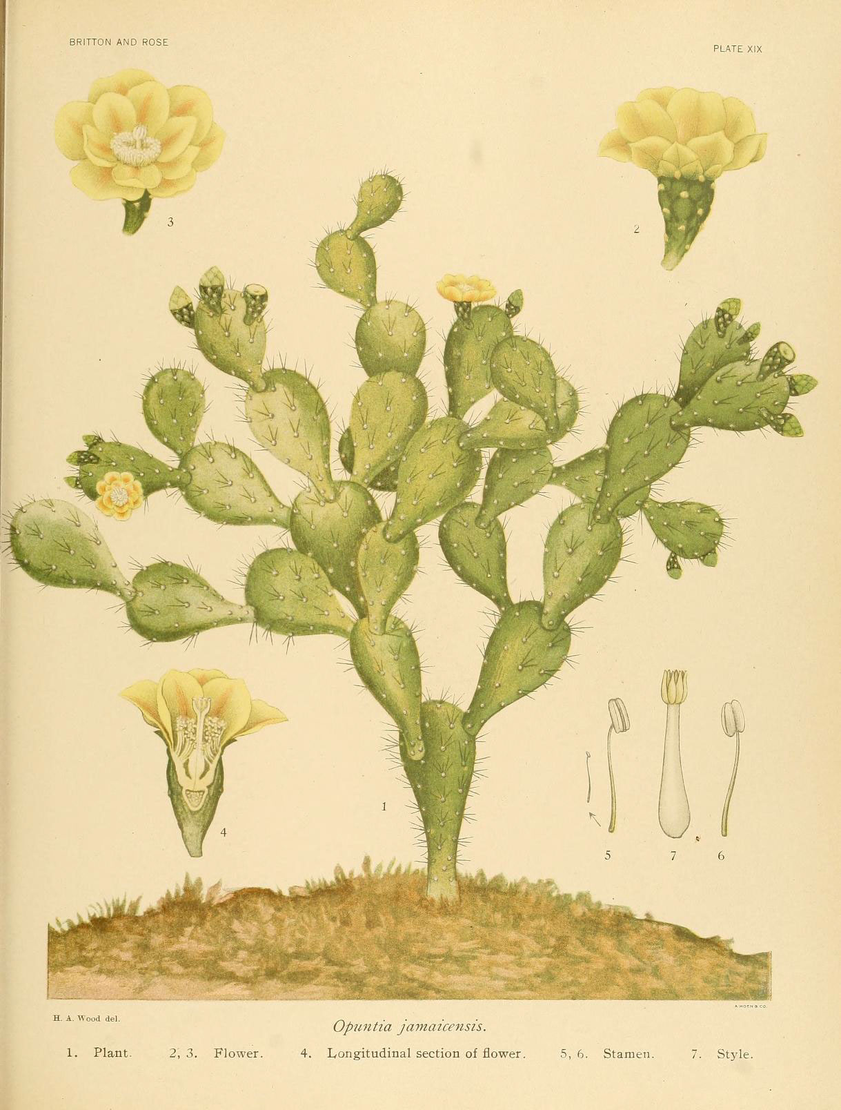 BRITTON AND ROSE H. A. Wood del. 1. Plant. 2, 3. Flower. Opu7itia jaynaicensis. 4. lyongitudinal section of flower. 5, 6. Stamen. 7. Style.